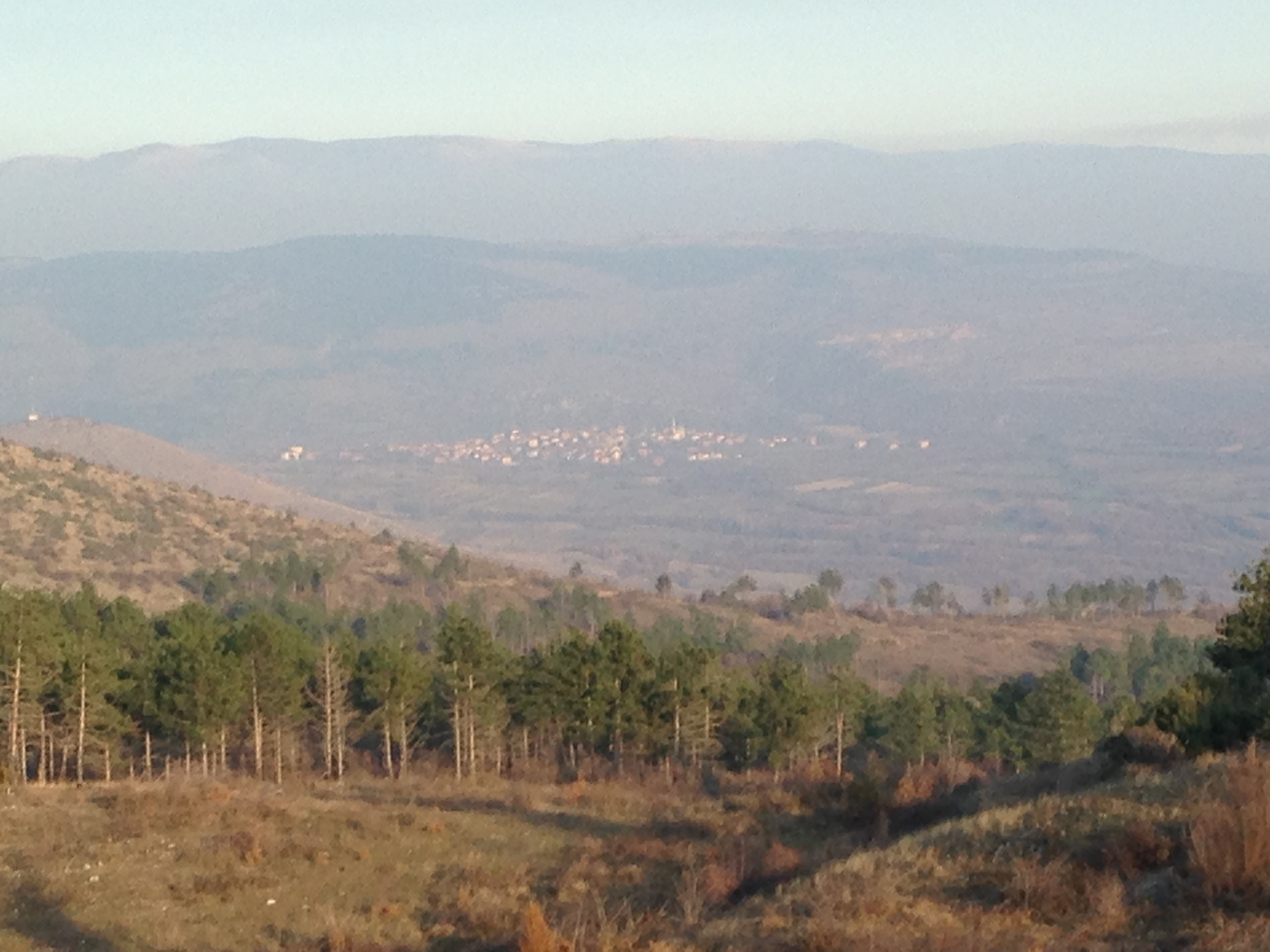 village of Gorno Svilare, near Skopje, Macedonia